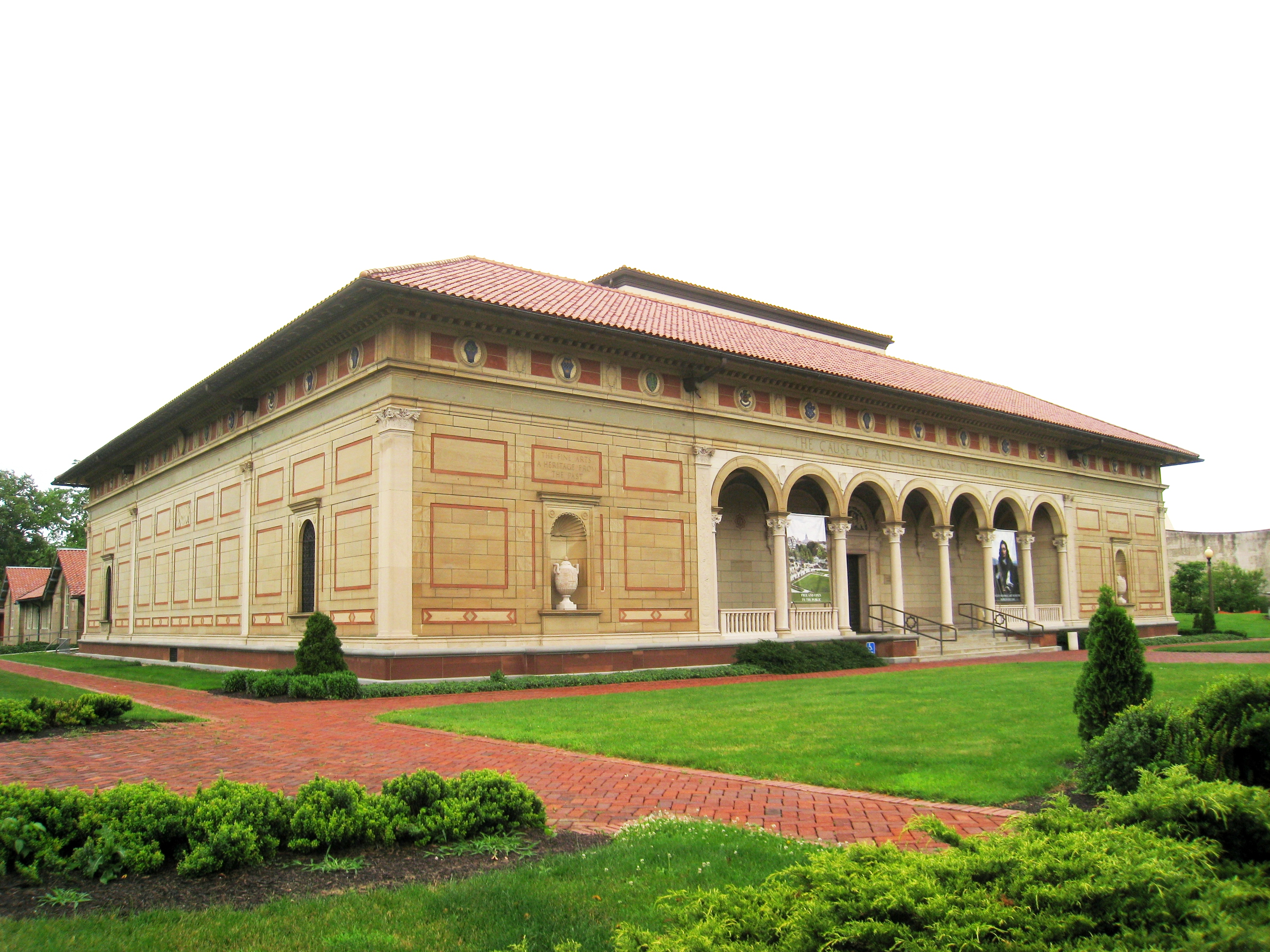 Allen Memorial Art Museum, Oberlin College, Oberlin, Ohio, USA. Architect Cass Gilbert, 1917.